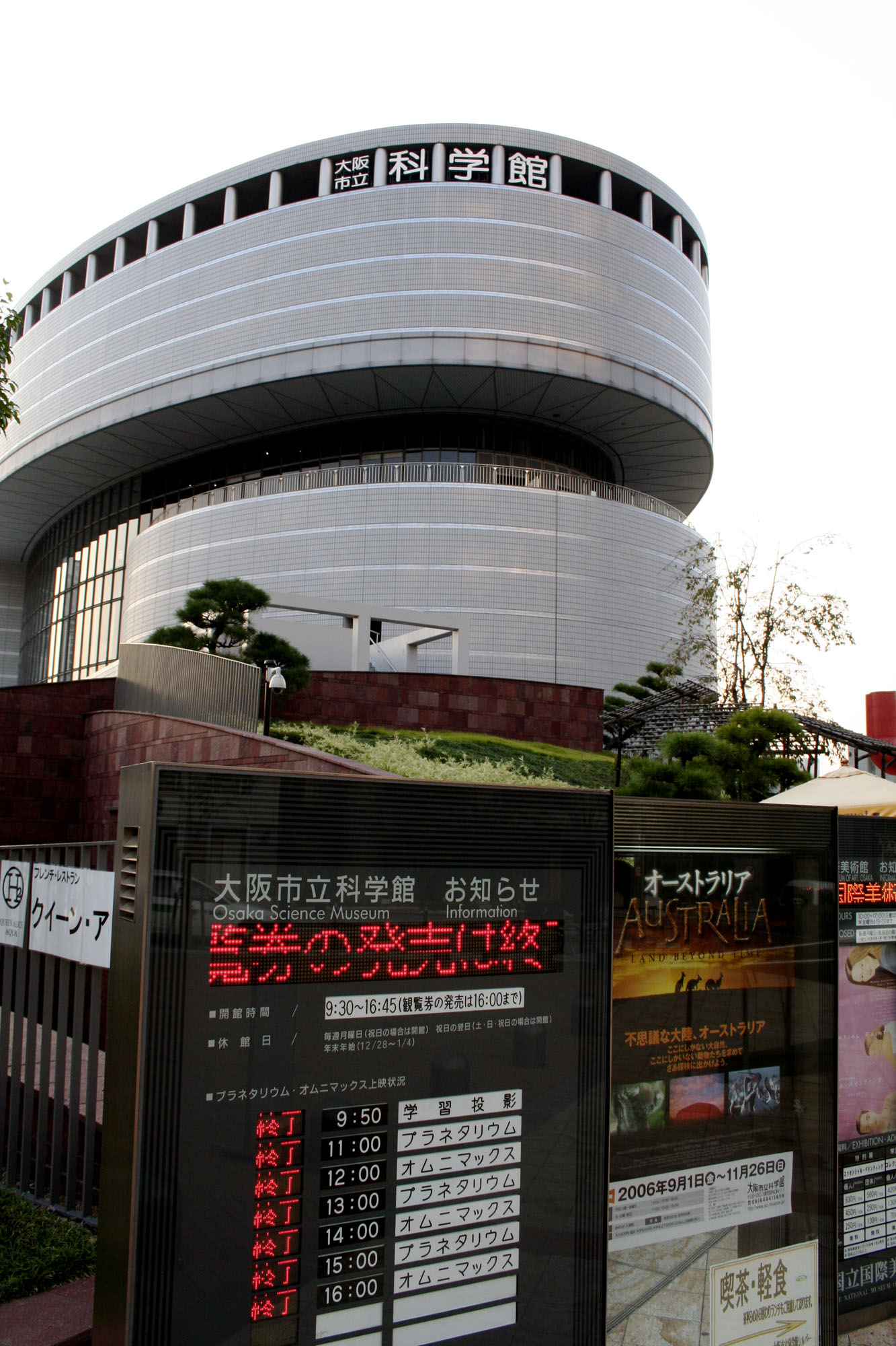 Taken at the Osaka Science Museum